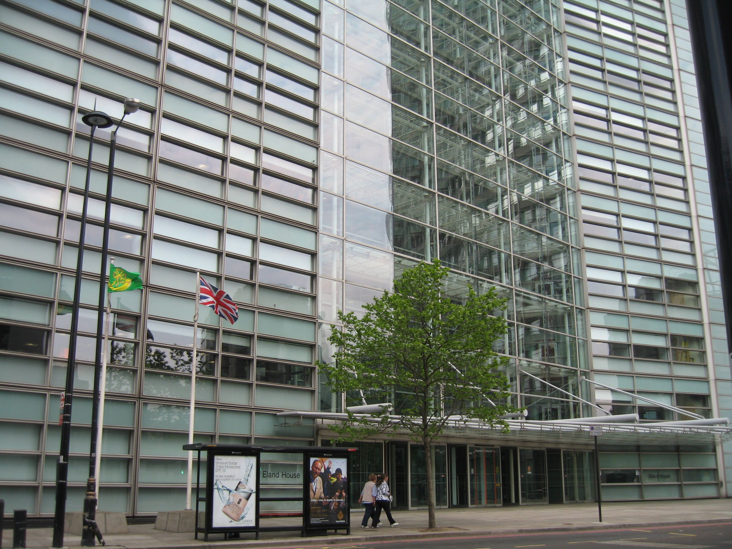 Department for Communities & Local Government, Eland House - Union and Huntingdonshire flags flying